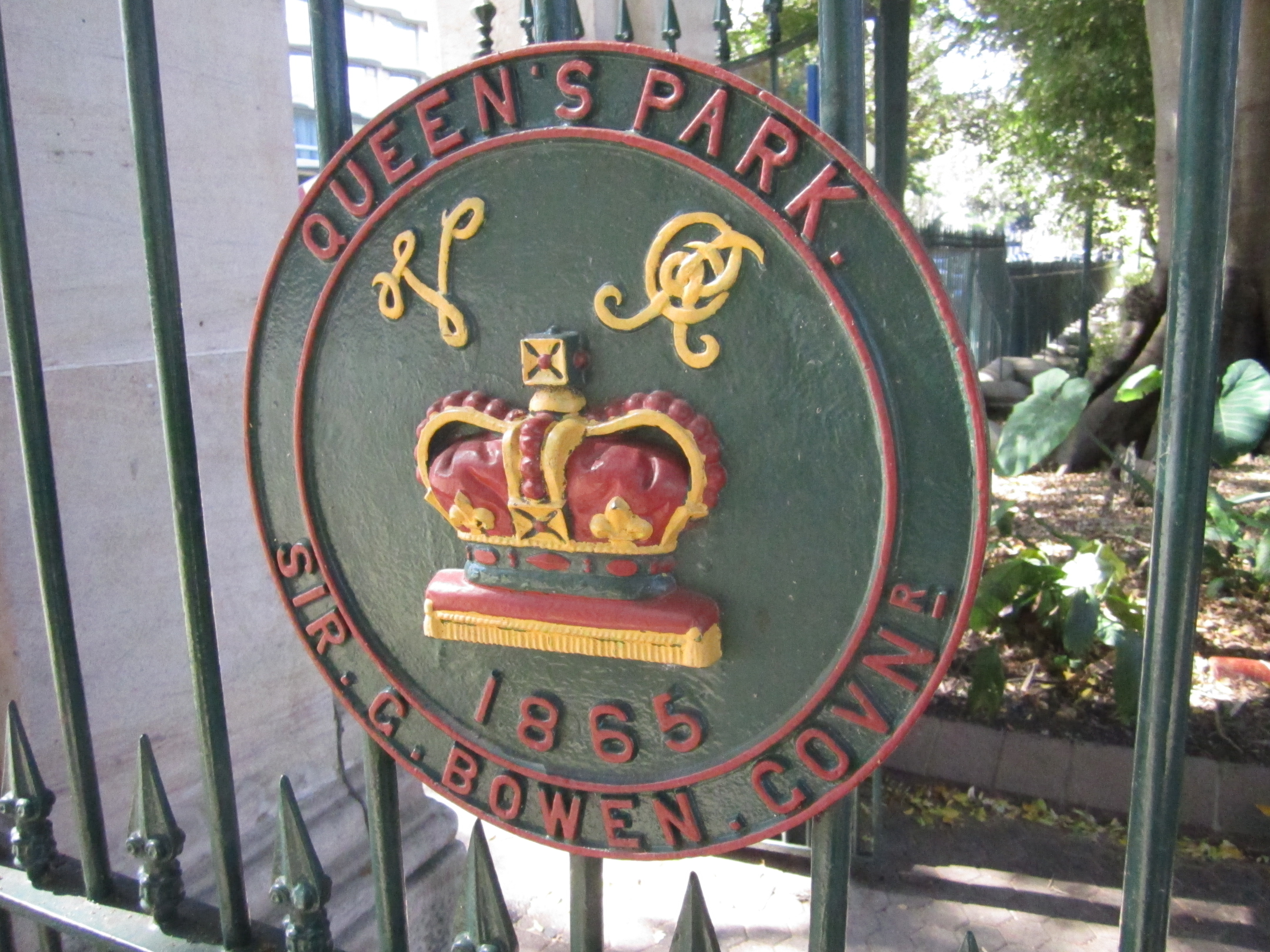 The making of this file was supported by Wikimedia Australia. To see other files made with WM-AU support, please see the category Supported by Wikimedia Australia. "Queen's Park" gate detail on the Albert Street entrance to the Brisbane City Botanic Gardens.